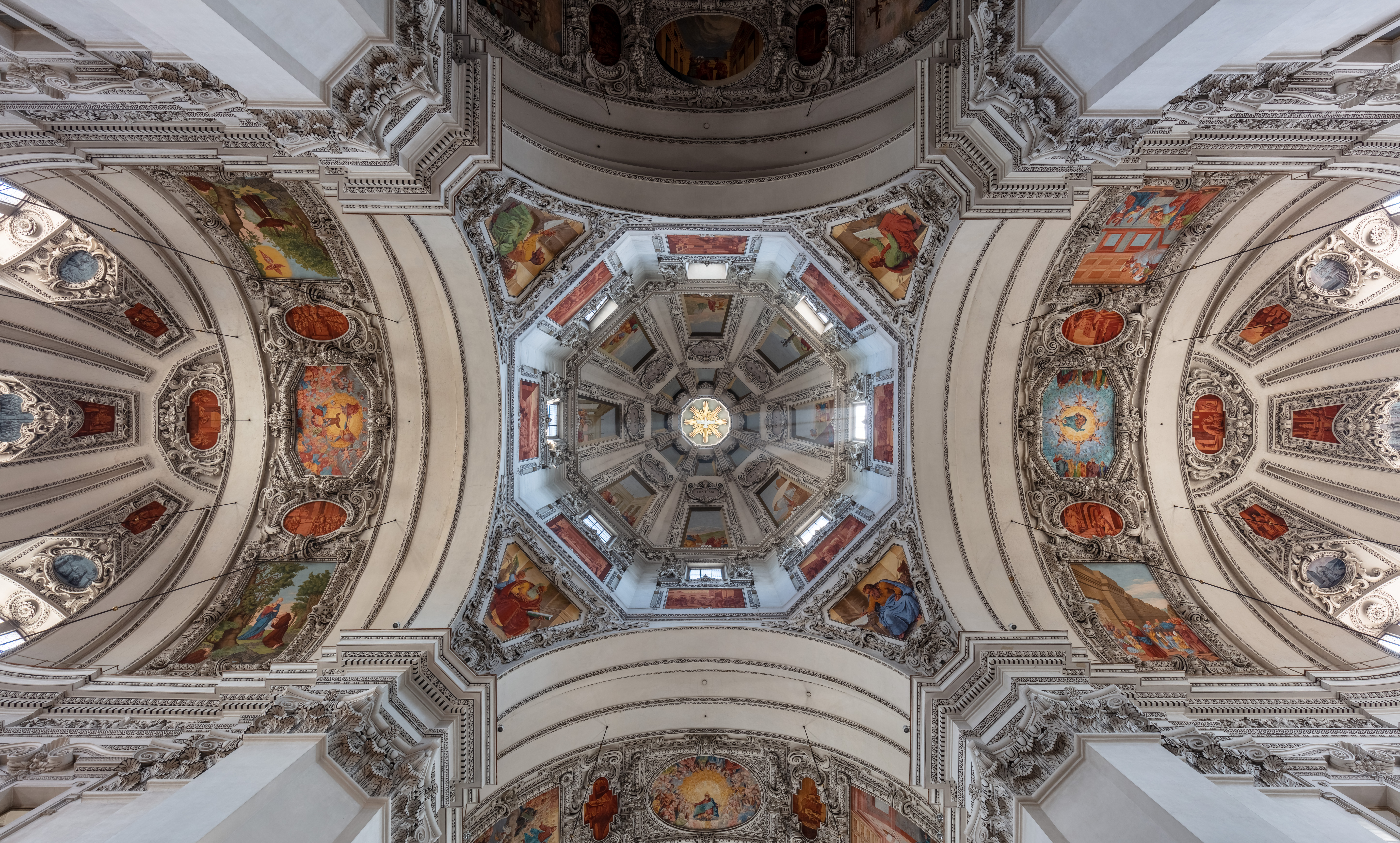 Central dome of Salzburg Cathedral, Austria. The cathedral was founded in 774 and rebuilt in 1181 after a fire but it become its present Baroque style appearance under Prince-Bishop Wolf Dietrich von Raitenau in the 17th century.